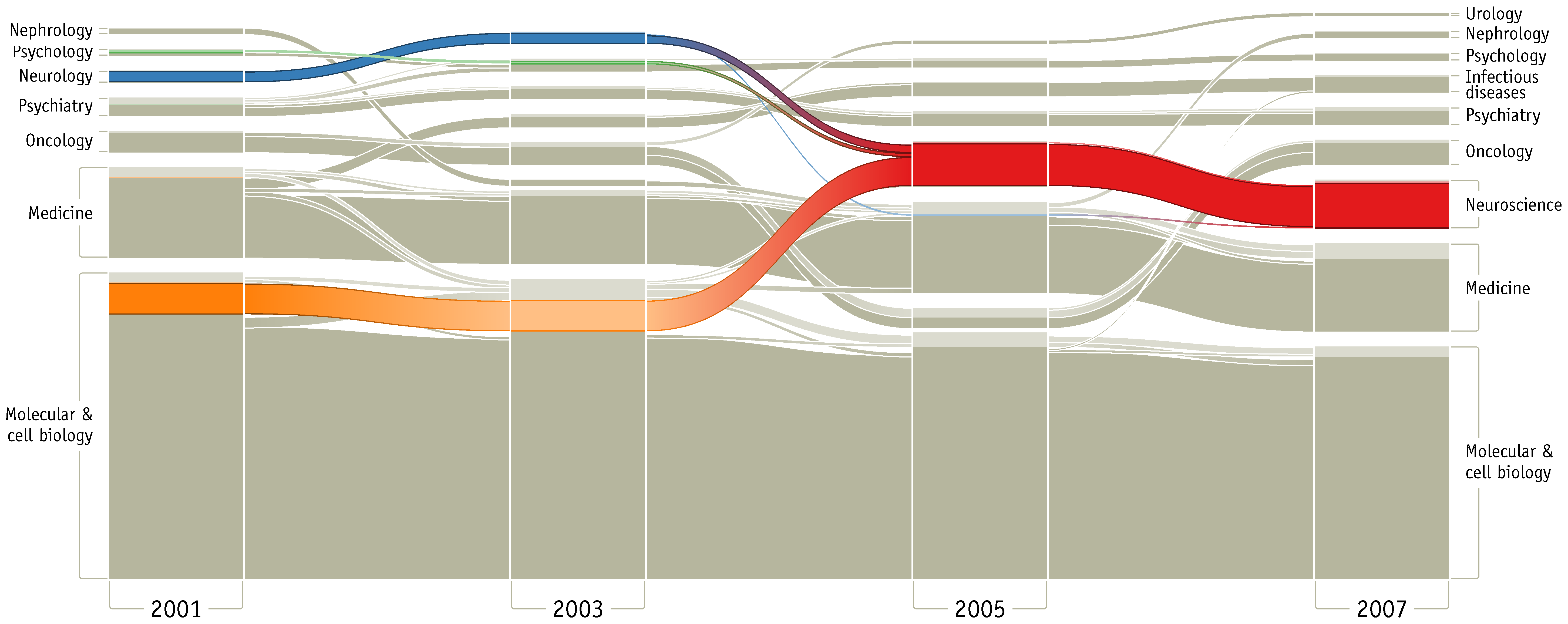 Under creative commons license from PLoS One.